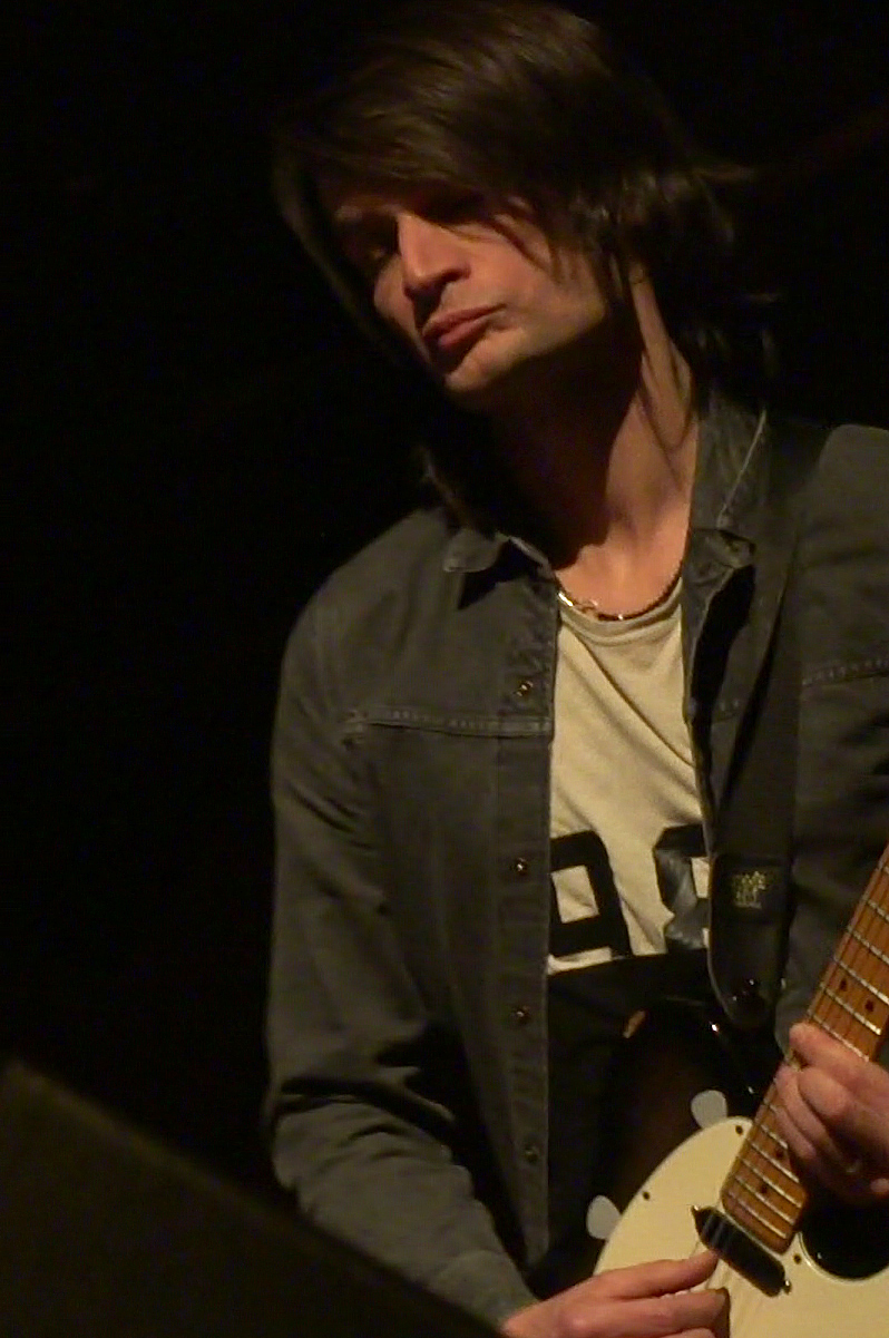 Jonny Greenwood and London Contemporary Orchestra in Geneva (2015)